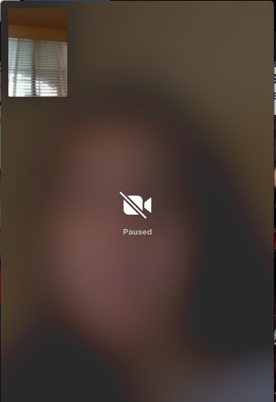 Paused FaceTimes